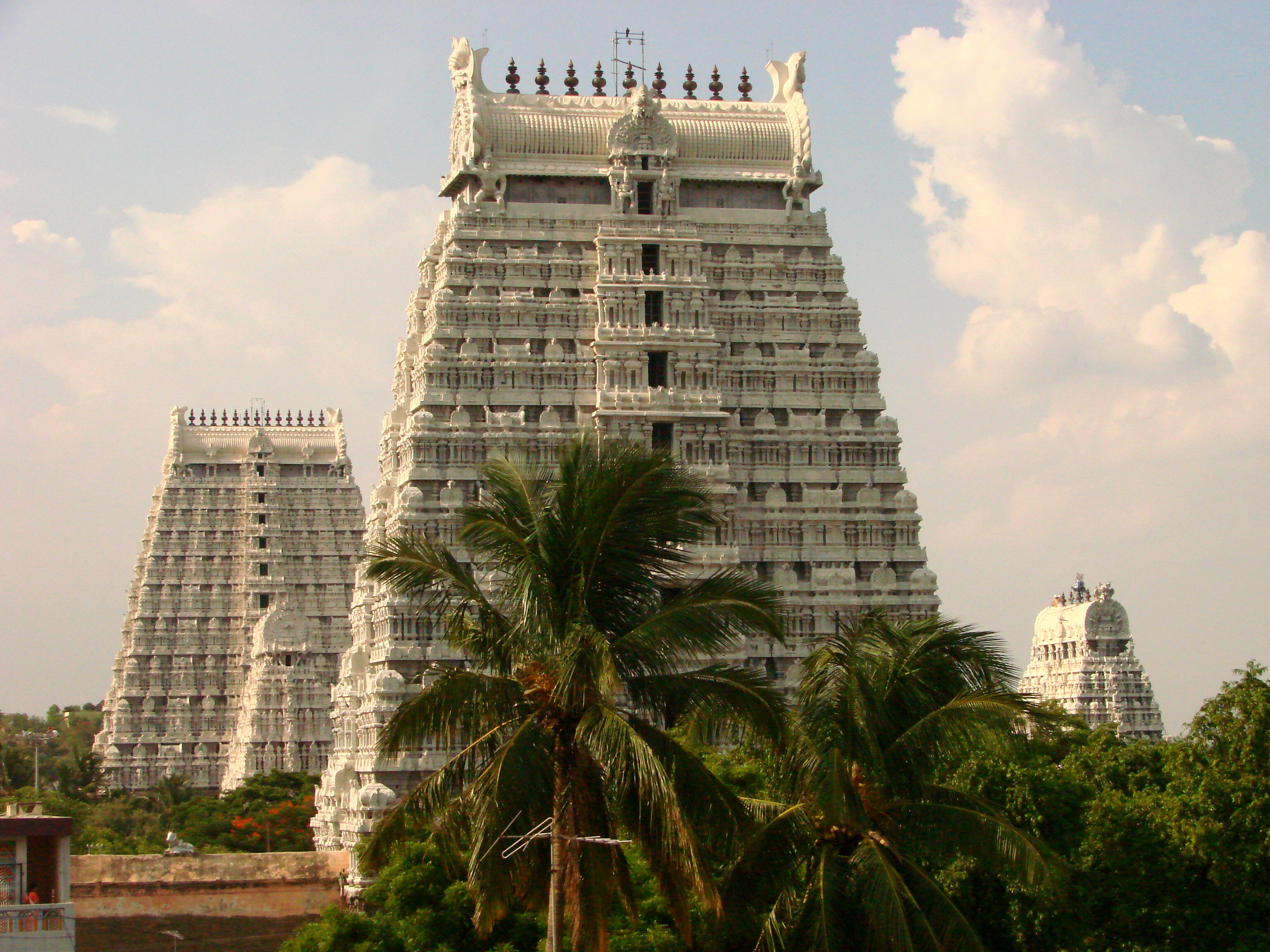 The gopuras of Arunchaleshvara Temple in Tiruvannamalai, India. Viewed in late-afternoon light from the roof of a nearby hotel. July 2008.